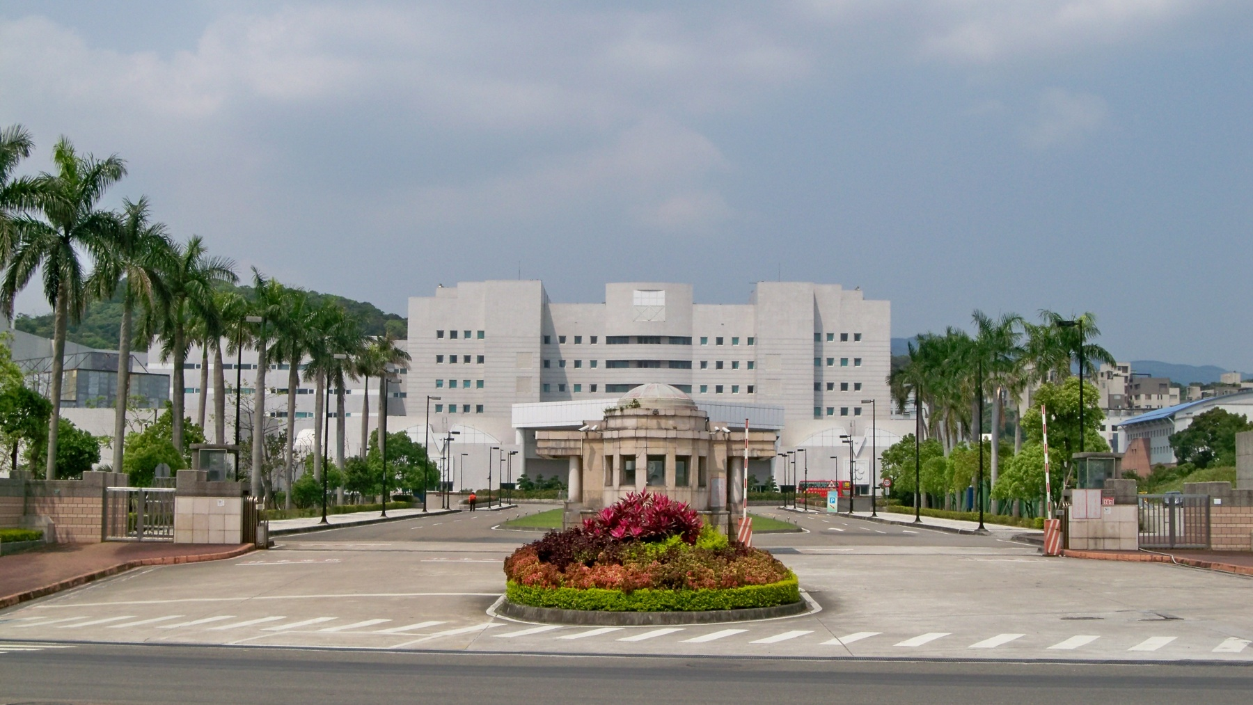 The National Defense Medical Center in Neihu, Taipei, Taiwan.